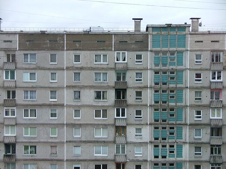 Riga - typical Sowjet building.